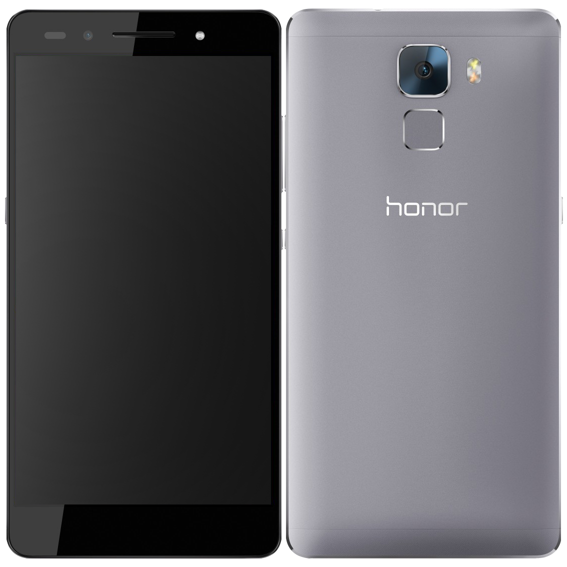 Render for Huawei Honor 7 smartphone.